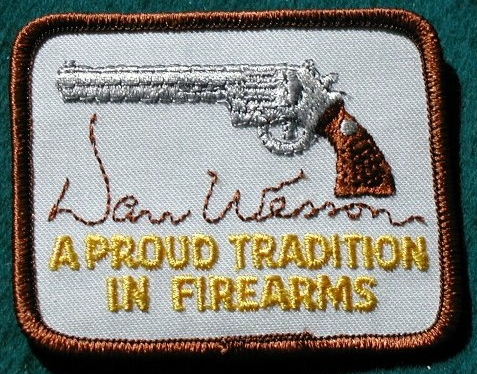 Dan Wesson Patch